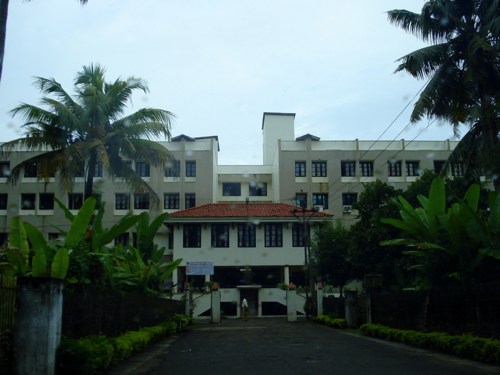 Co-operative Hospital, Irinjalakkuda